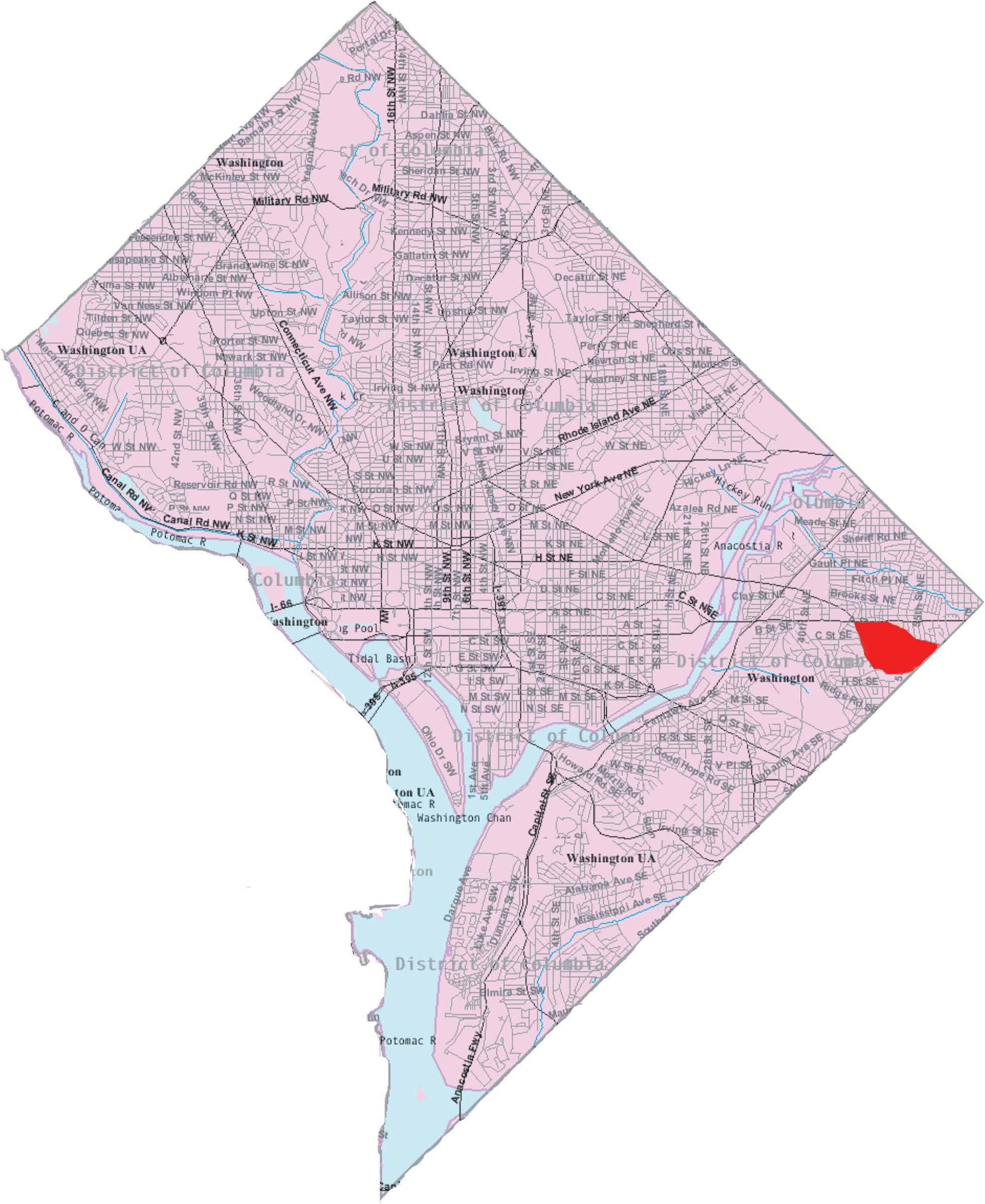 This image is a modified version of a self-generated reference map from the U.S. Census Bureau's American Factfinder at by Wikipedia user Msclguru.